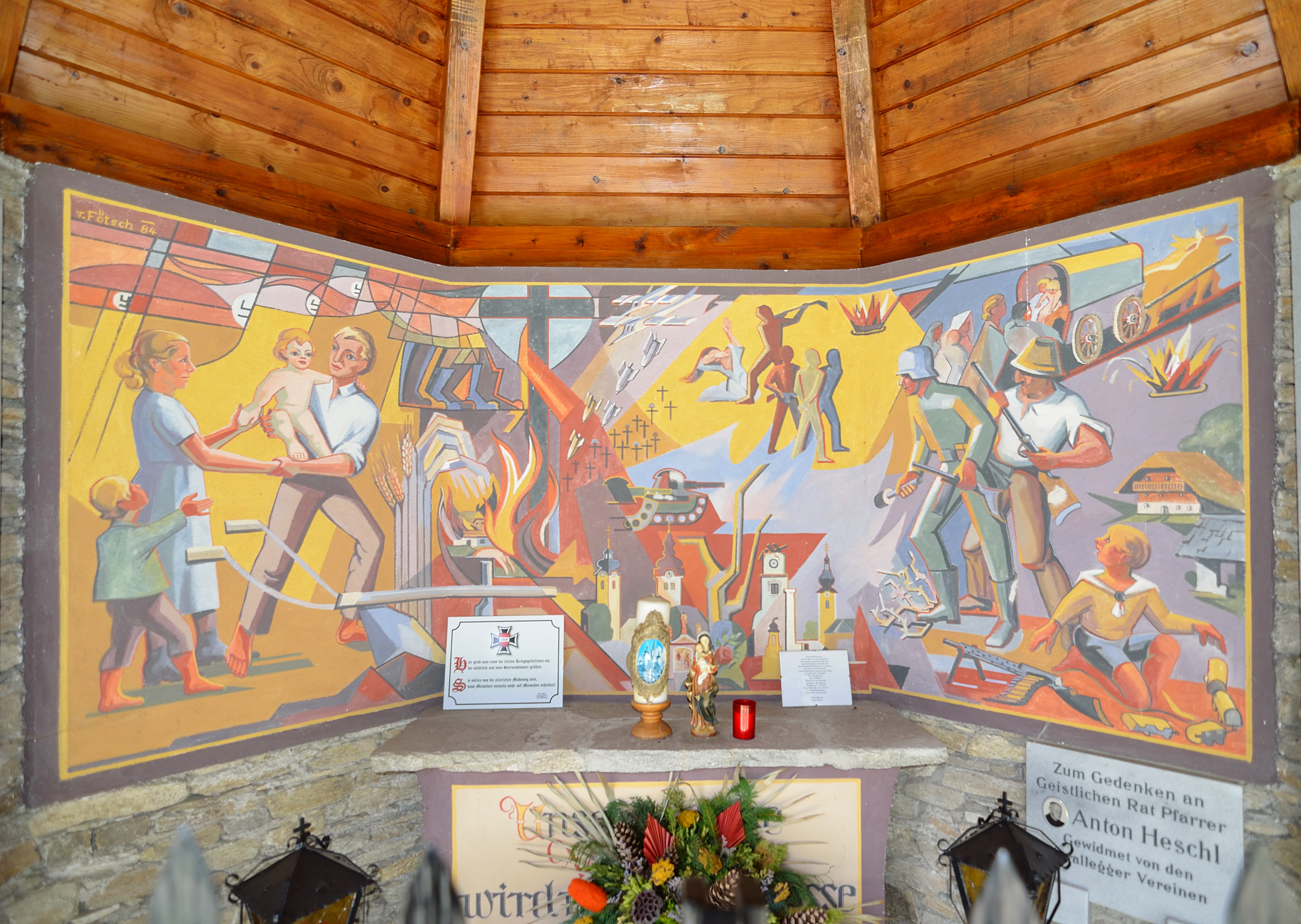 The Wetterkreuz Strallegg was built in 1984 as a war memorial. It is located in municipality of Strallegg, right to the border to Wenigzell, Styria.Seccofresco by Toni Fötsch.